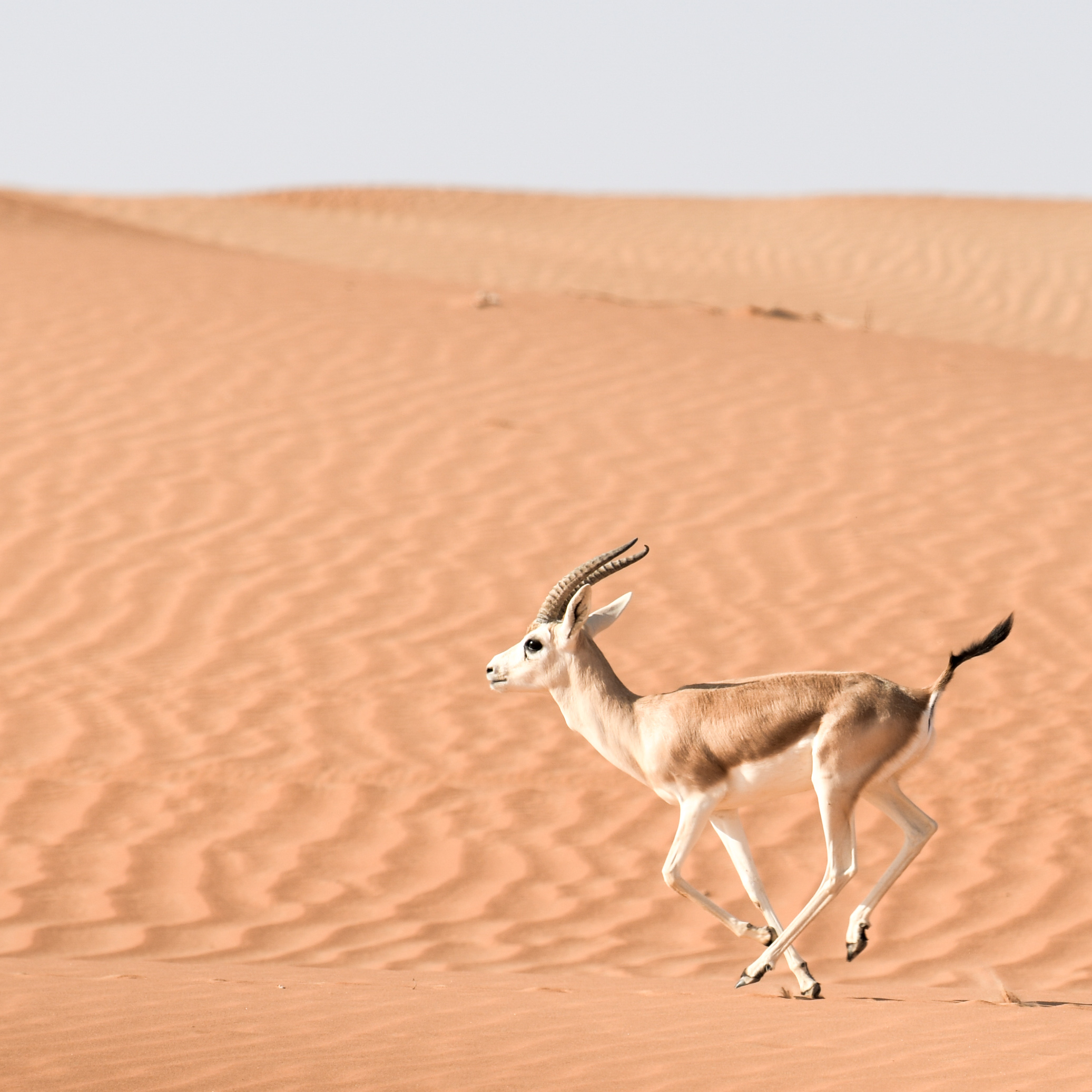 Sand Gazelle live across the Arabian peninsula. These Gazelles are adapted very well for the hot and dry Liwa desert at the edge of the empty quarter.